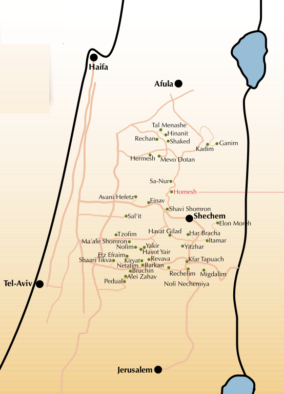 A map of Jewish settlements in the Shomron regional council on the West Bank.